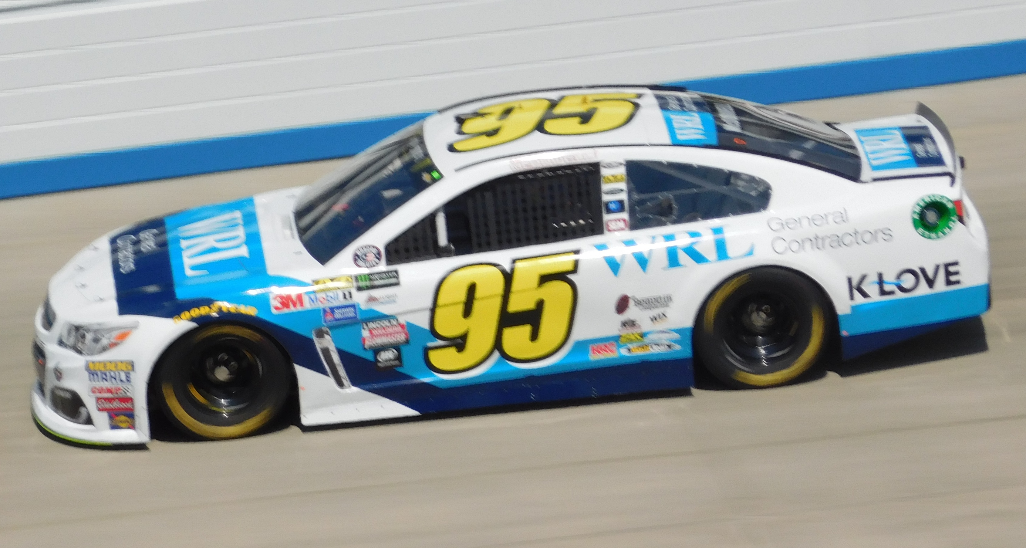 Michael McDowell's No. 95 WRL General Contractors Chevrolet at Dover International Speedway in 2017